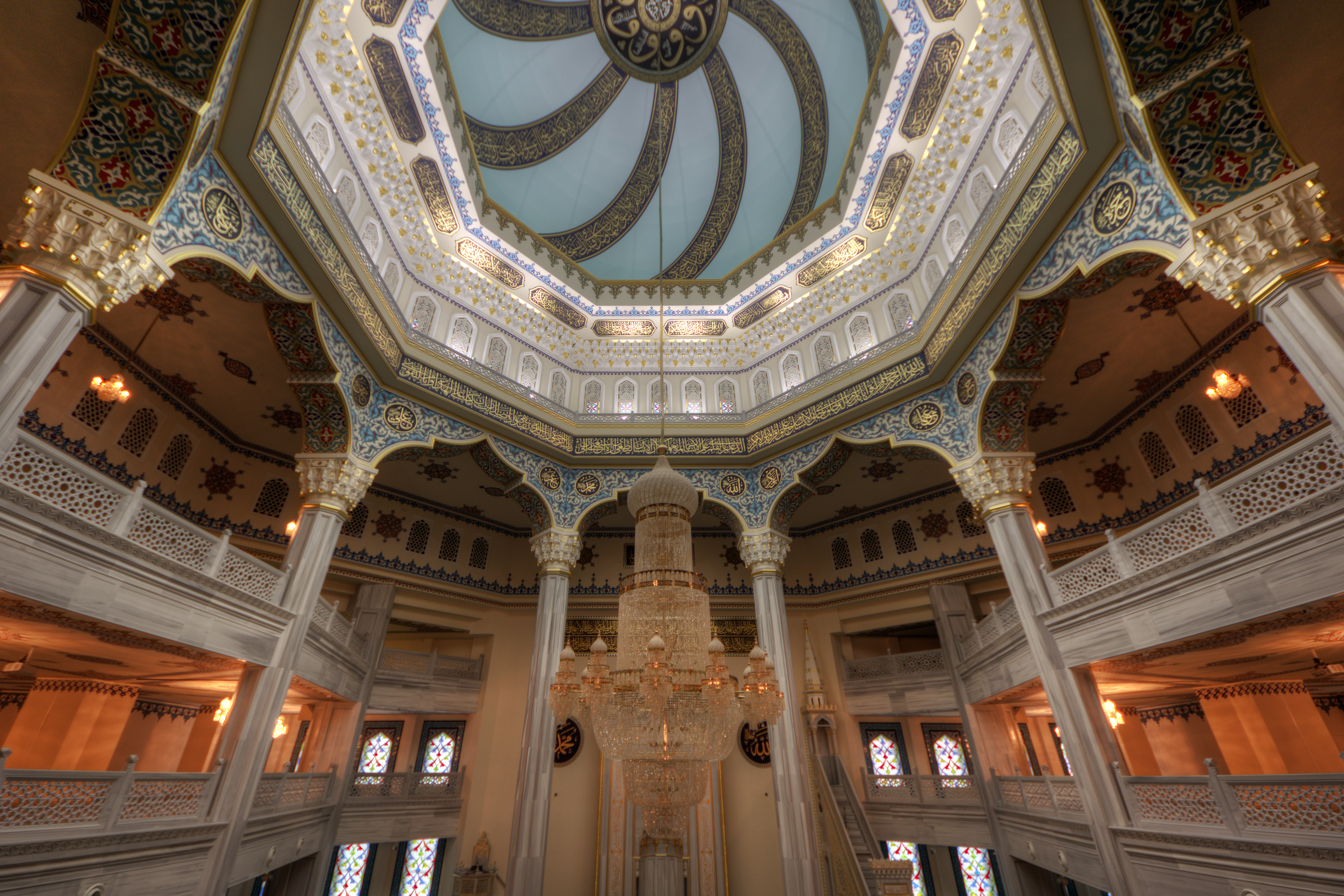 Moscow Cathedral Mosque (new), interior